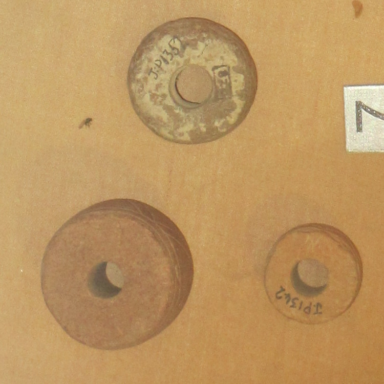 Cylinder seals. Tawilan. Petra Archaeological Museum